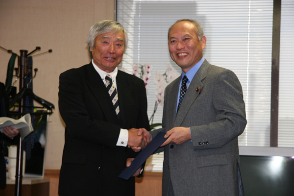 Yūichirō Miura, Principal of Clark Memorial International High School, received the Letter of Appointment as the Goodwill Ambassador for Health of the Ministry of Health, Labour and Welfare from Yōichi Masuzoe, Minister of Health, Labour and Welfare, at the Central Government Building No.5 in Chiyoda Ward, Tōkyō Metropolis on November, 2007.